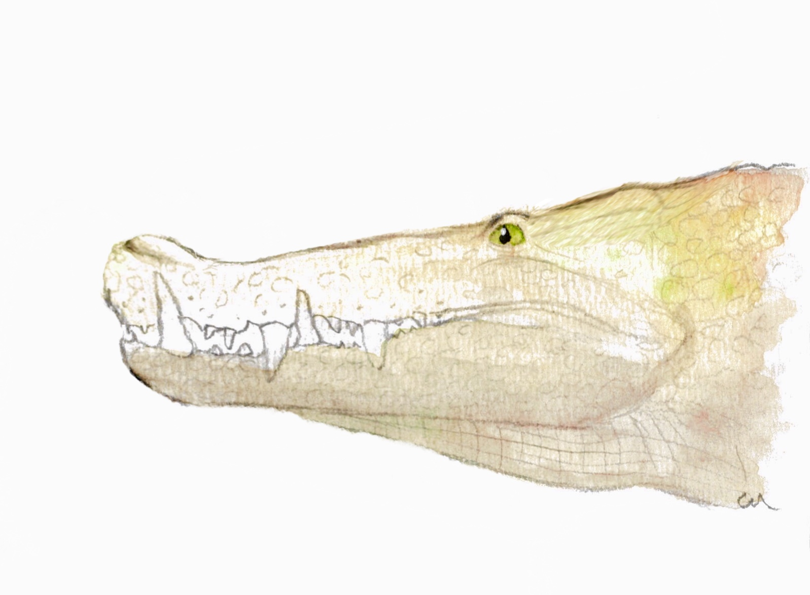 A reconstruction showing the head of Kaprosuchus